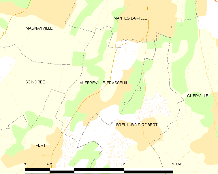 Map of French municipality Auffreville-Brasseuil